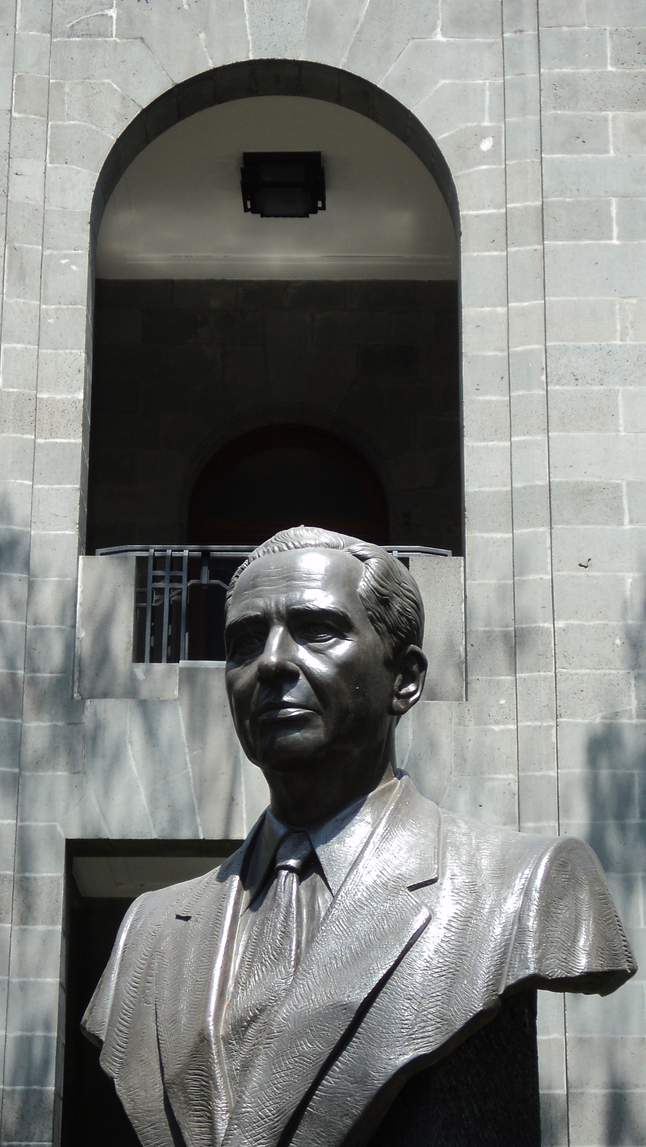 Effigy of Dr. Juan Ramón de la Fuente-Muñiz at the central patio of Mexico's Health Ministry (Secretaría de Salud)